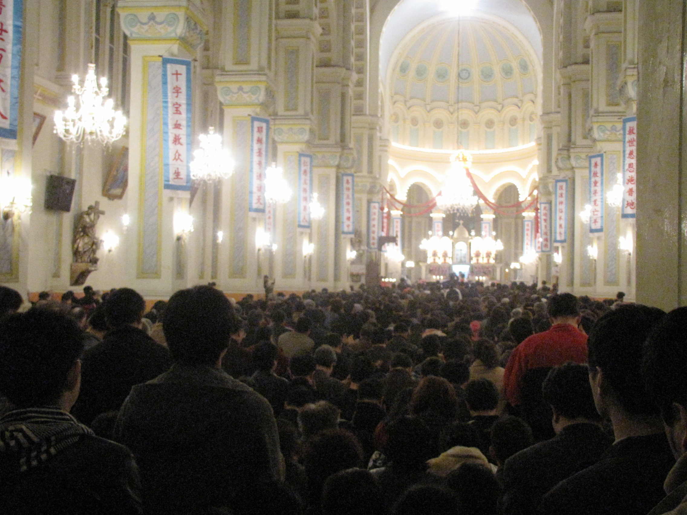 China, Tianjin, Xikai catholic cathedral, 2010 Easter night.